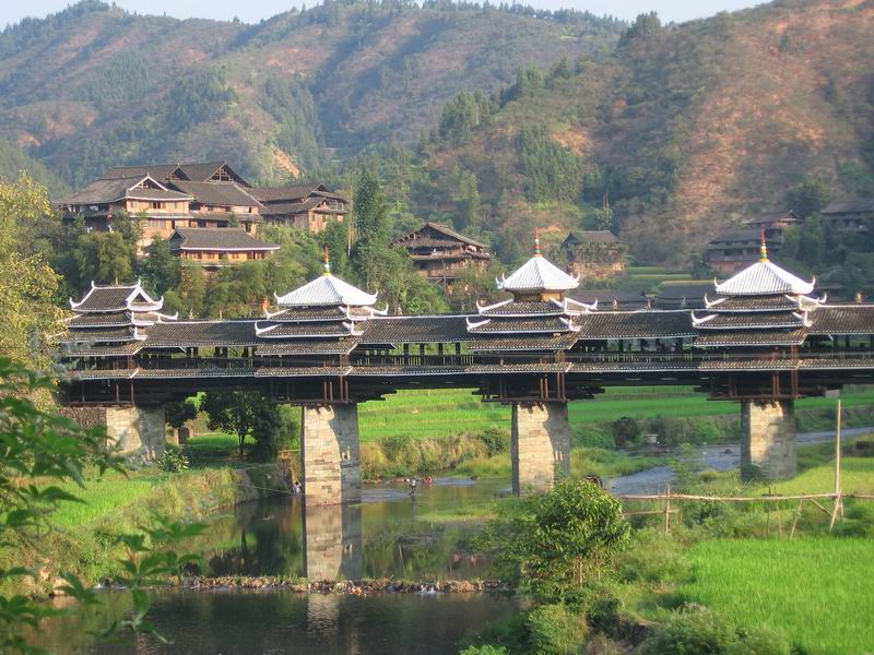 Chengyangqiao (程阳桥) "Wind and Rain Bridge" of the Dong minority (侗族), Sanjiang county, north Guangxi autonomous area, China. Taken by Ariel Steiner.